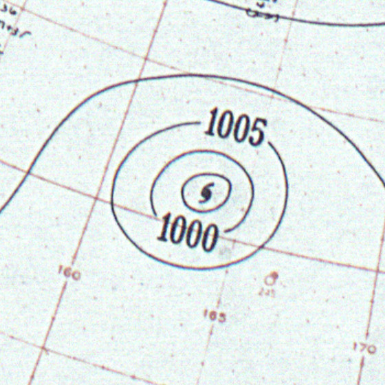 Surface analysis map of Super Typhoon Olive on September 16, 1952